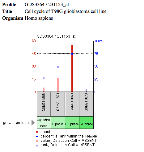 C16orf86 DNA microarrary data for Glioblastoma cells